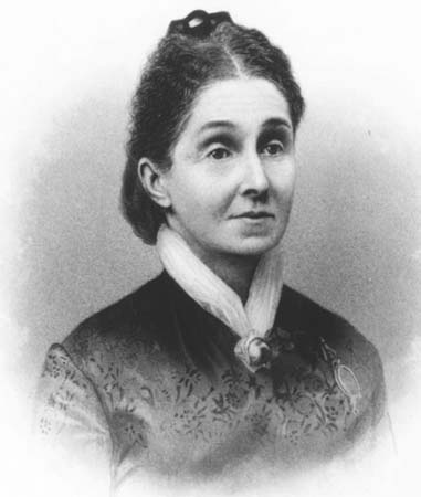 Virginia Louisa Minor, head-and-shoulders portrait, facing right